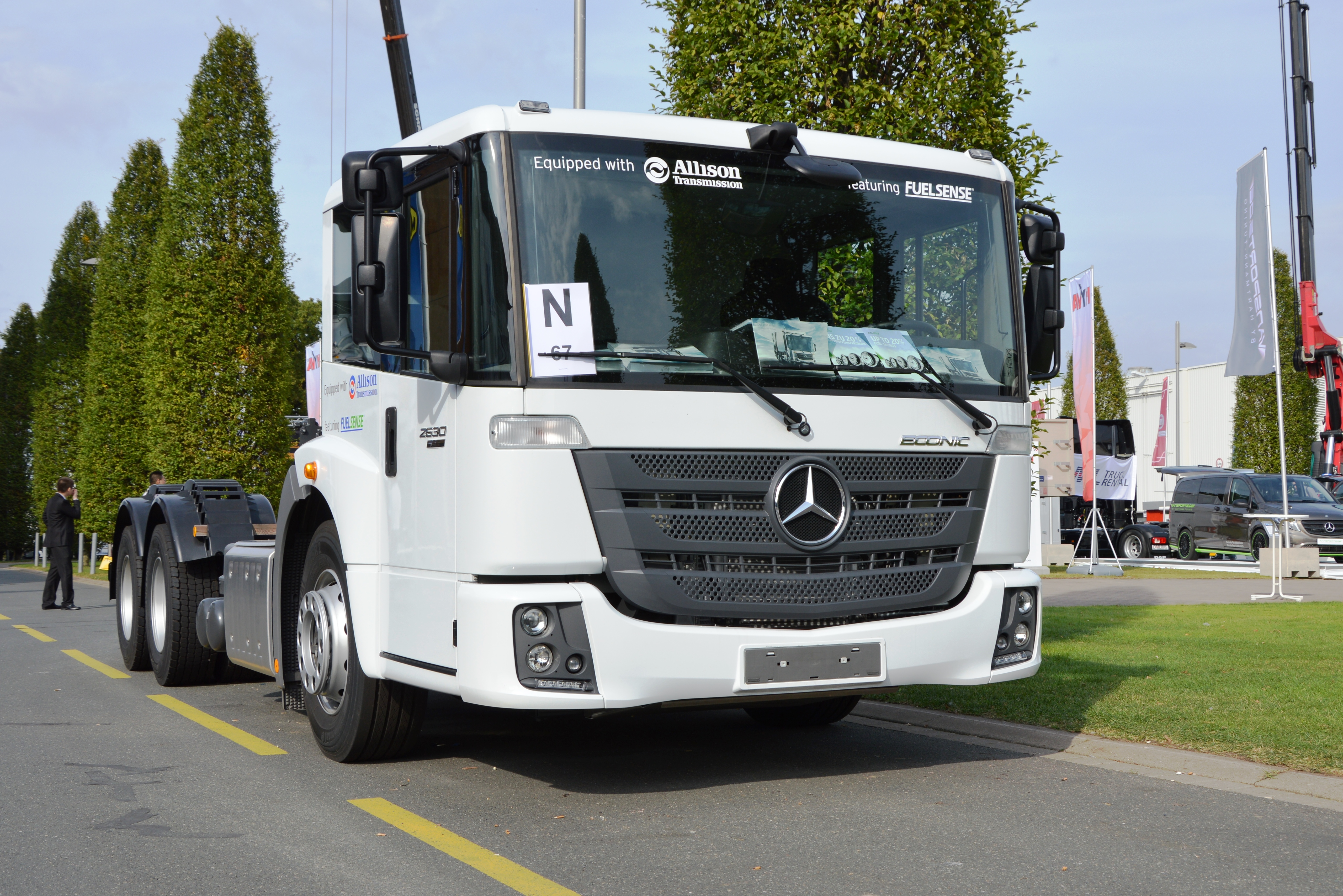 Mercedes-Benz Econic 2630. Equipped with Allison transmission. Photo taken at exhibition IAA 2014 in Hanover, Germany.